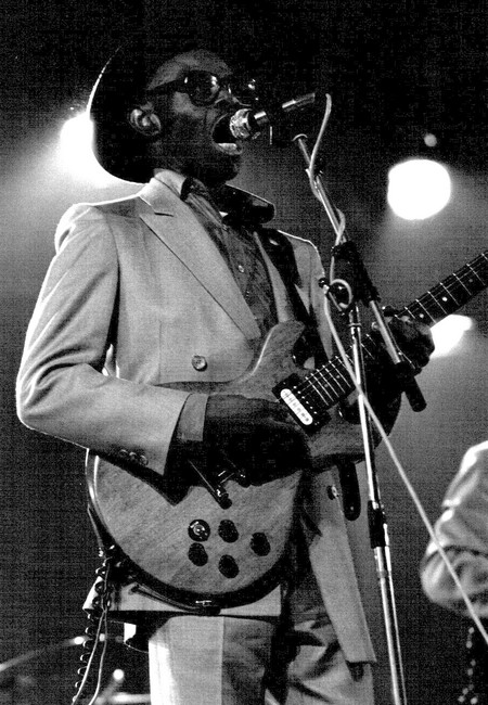 Guitarist J.B. Hutto in Bagneux, France